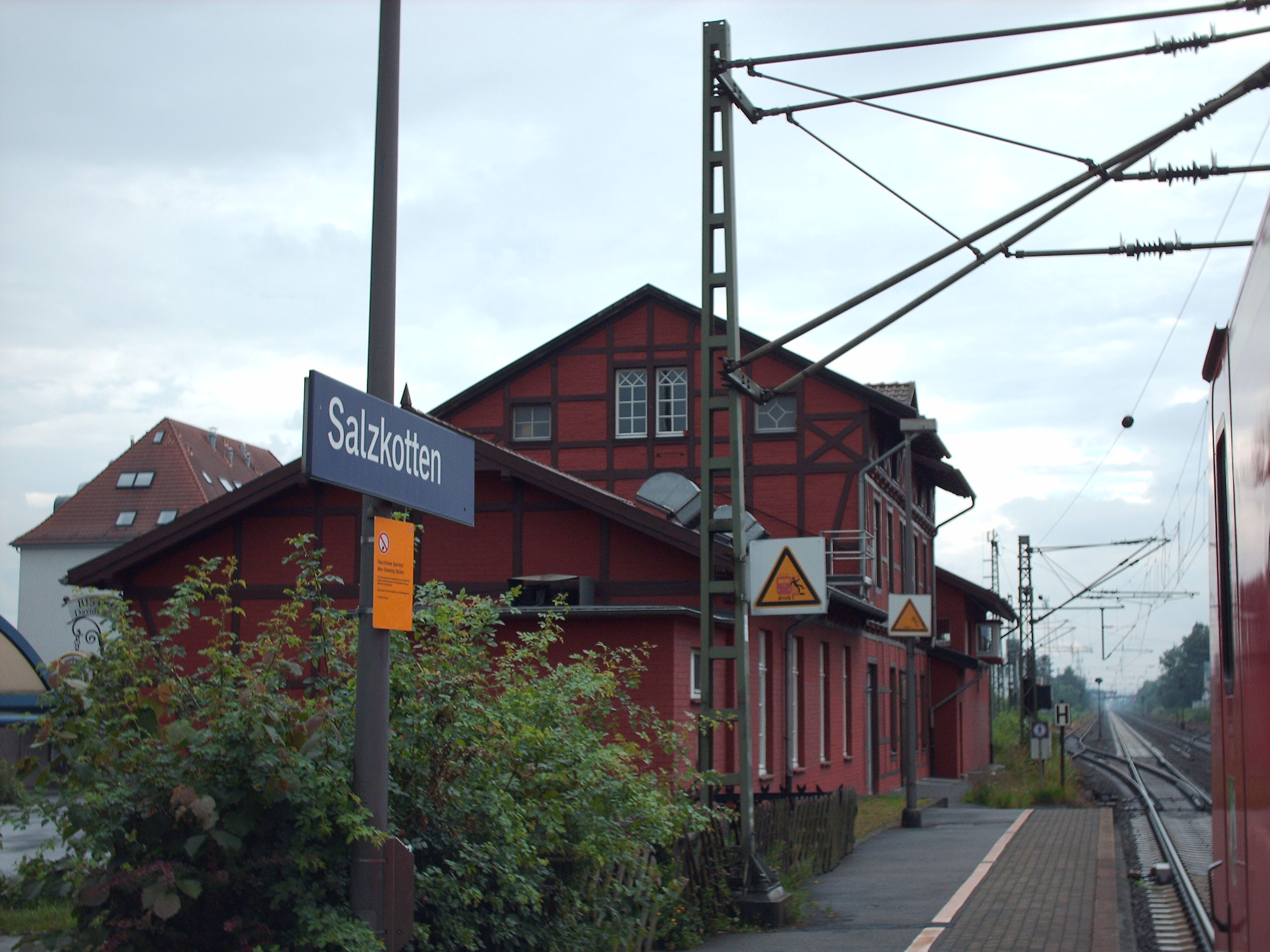 Salzkotten station, Salzkotten, Germany check usage